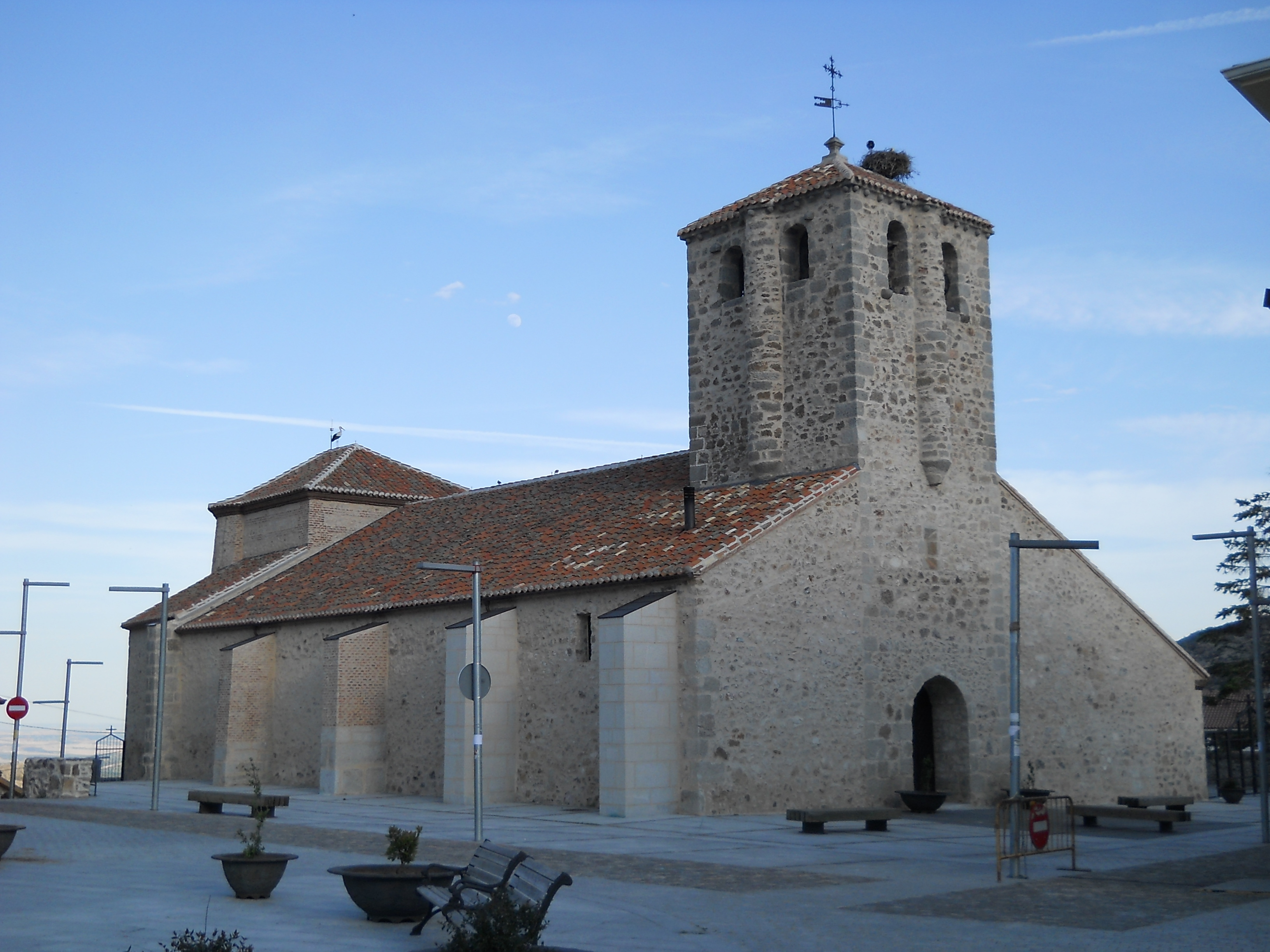 Church of the Immaculate Conception, Bustarviejo, Madrid, Spain